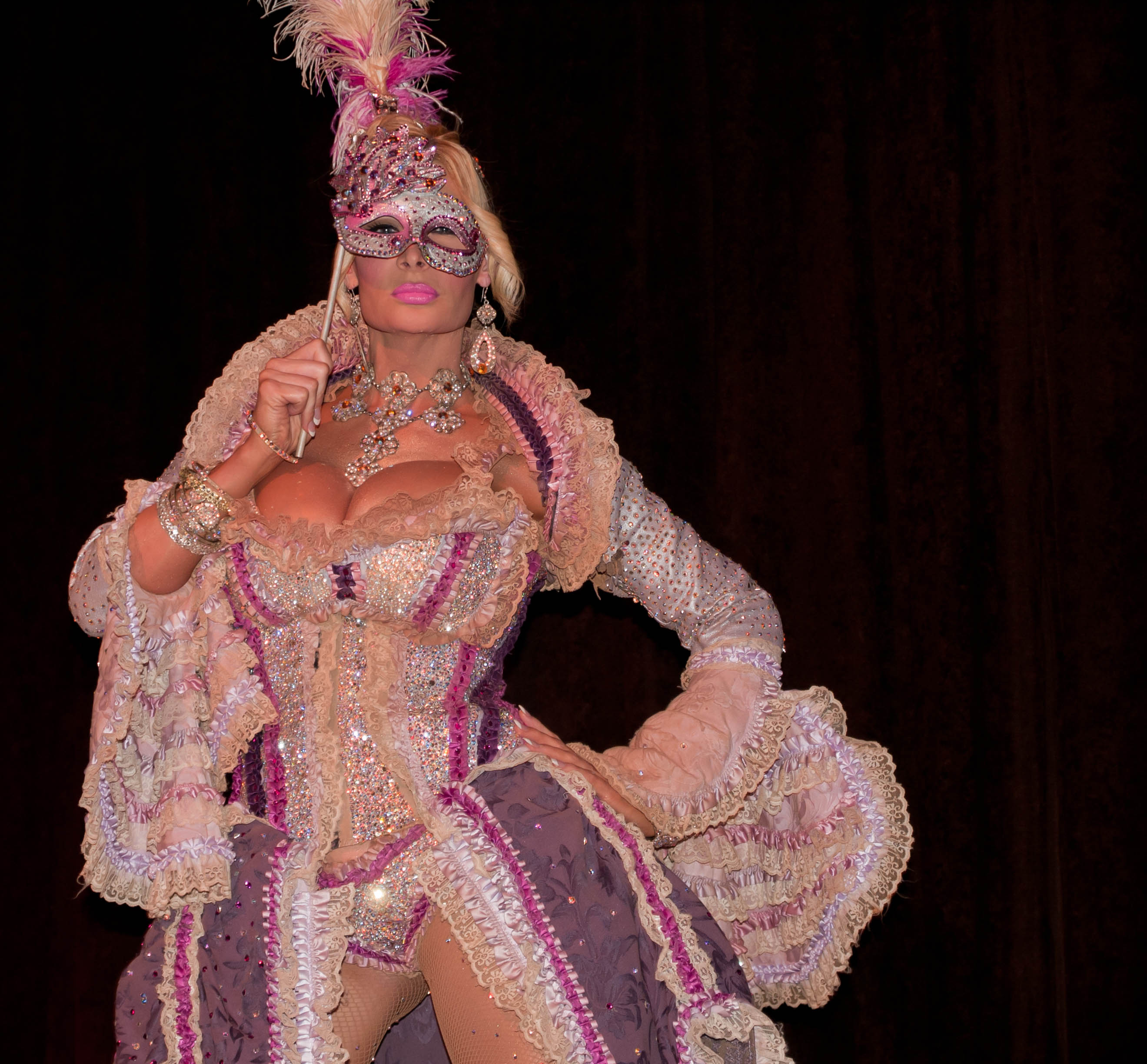 Madonna's drag impersonator in Vogue